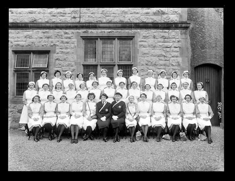 Creator: H. Allison & Co. Photographers Date: 19th June 1942 Original Format: Glass Plate Negative Description: Group portrait of St. John's Ambulance nurses. Commissioned by Nicholson. PRONI Ref: D2886/W/Portrait/182 Copying and copyright: Please For Copy Orders, contact: For fees and charges